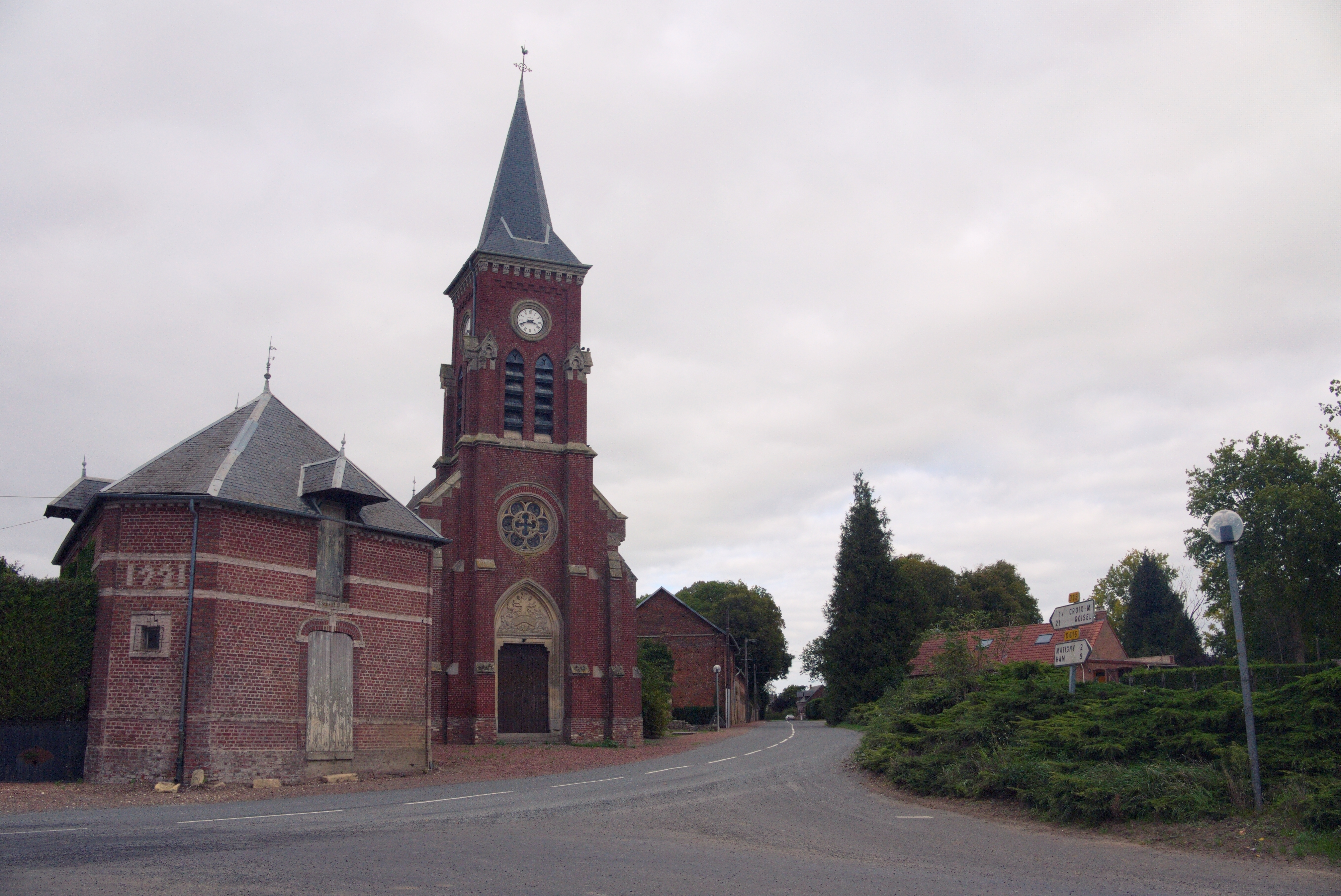 Y (Somme) church ; the foreground gives a hint of the whereabouts of the name of this village. The belltower was kind of impressive compared to the church itself.